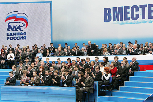 MOSCOW. At the 9th United Russia Party Congress.